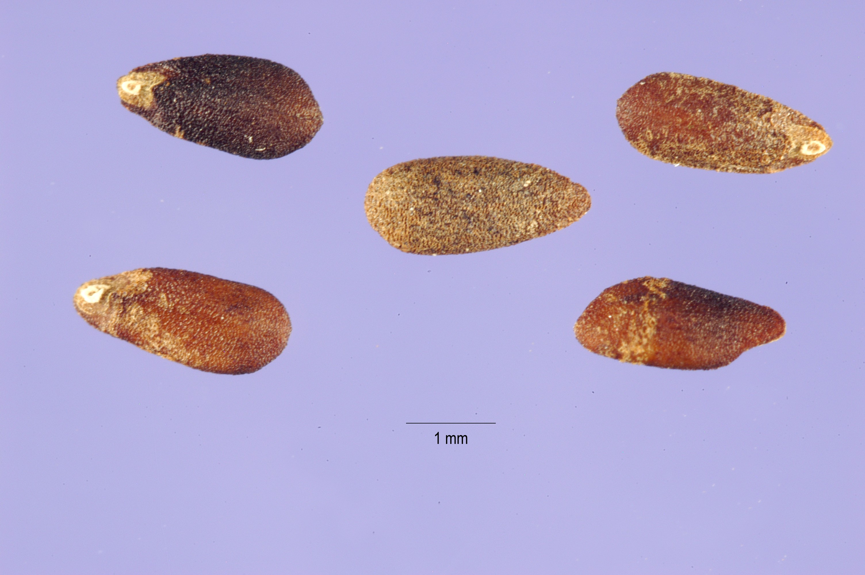 Hyssopus Officinalis seeds